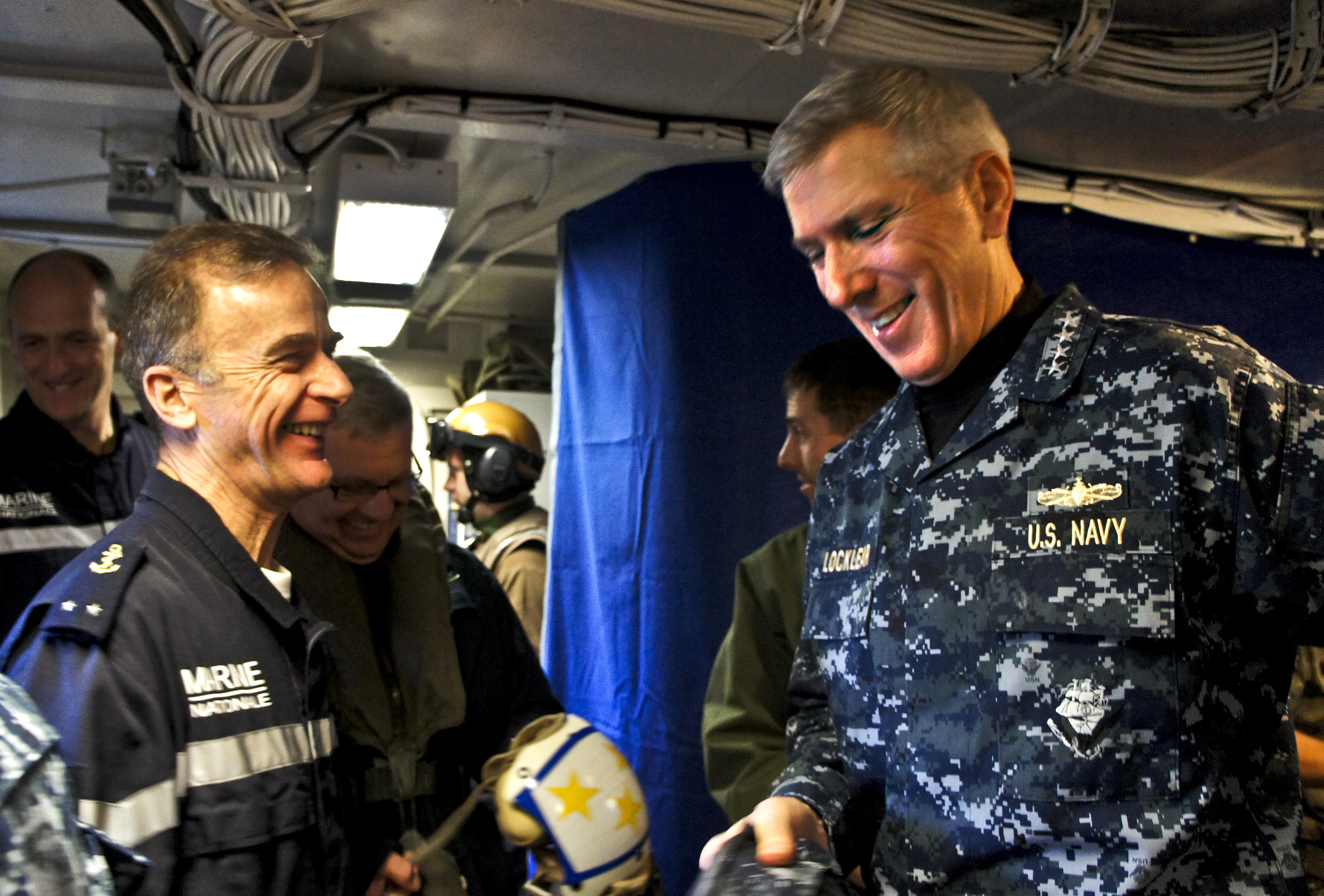 MEDITERRANEAN SEA (March. 21, 2011) Adm. Samuel J. Locklear, III, commander, Joint Task Force Odyssey Dawn, speaks with French navy Rear Adm. Philippe Coindreau, deputy commander French maritime forces, aboard the French aircraft carrier Charles de Gaulle (R91). Charles de Gaulle is operating in the Mediterranean Sea supporting the coalition led operations in response to the crisis in Libya. Joint Task Force Odyssey Dawn is the U.S. Africa Command task force established to provide operational and tactical command and control of U.S. military forces supporting the international response to the unrest in Libya and enforcement of United Nations Security Council Resolution (UNSCR) 1973. UNSCR 1973 authorizes all necessary measures to protect civilians in Libya under threat of attack by the Qadhafi regime forces. (U.S. Navy photo/Released)